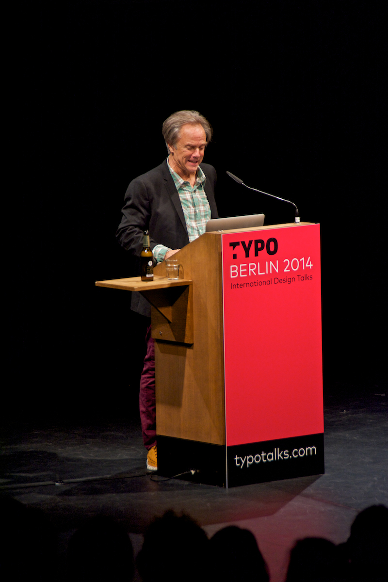 David Carson speaking at the 2014 TYPO Berlin conference